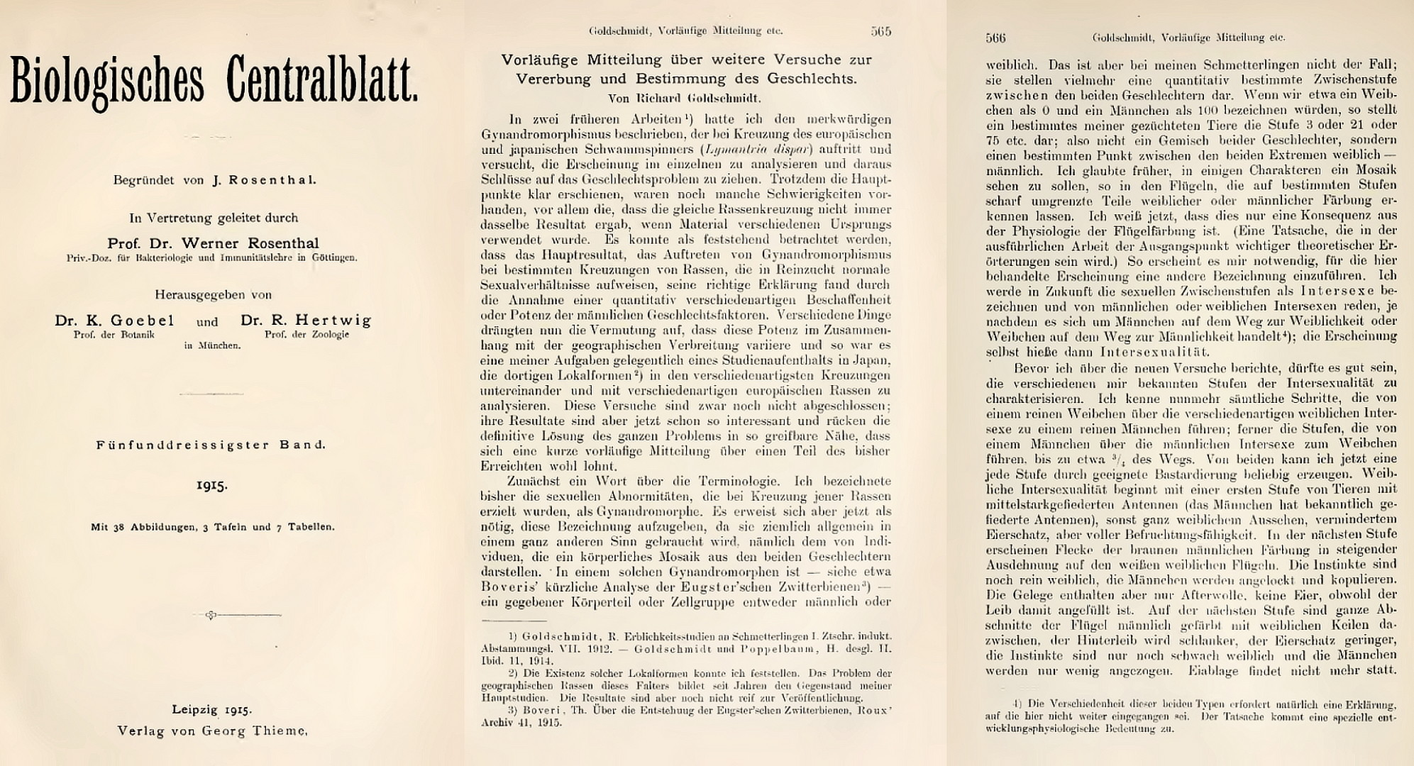 How the term 'intersex' was coinded: Image of: Richard Goldschmidt: A Preliminary Report on Further Experiments in Inheritance and Determination of Sex (original article in the German language). In: Biologisches Centralblatt, Volume 35, Georg Thieme (publisher), Leipzig 1915, pages 565-566